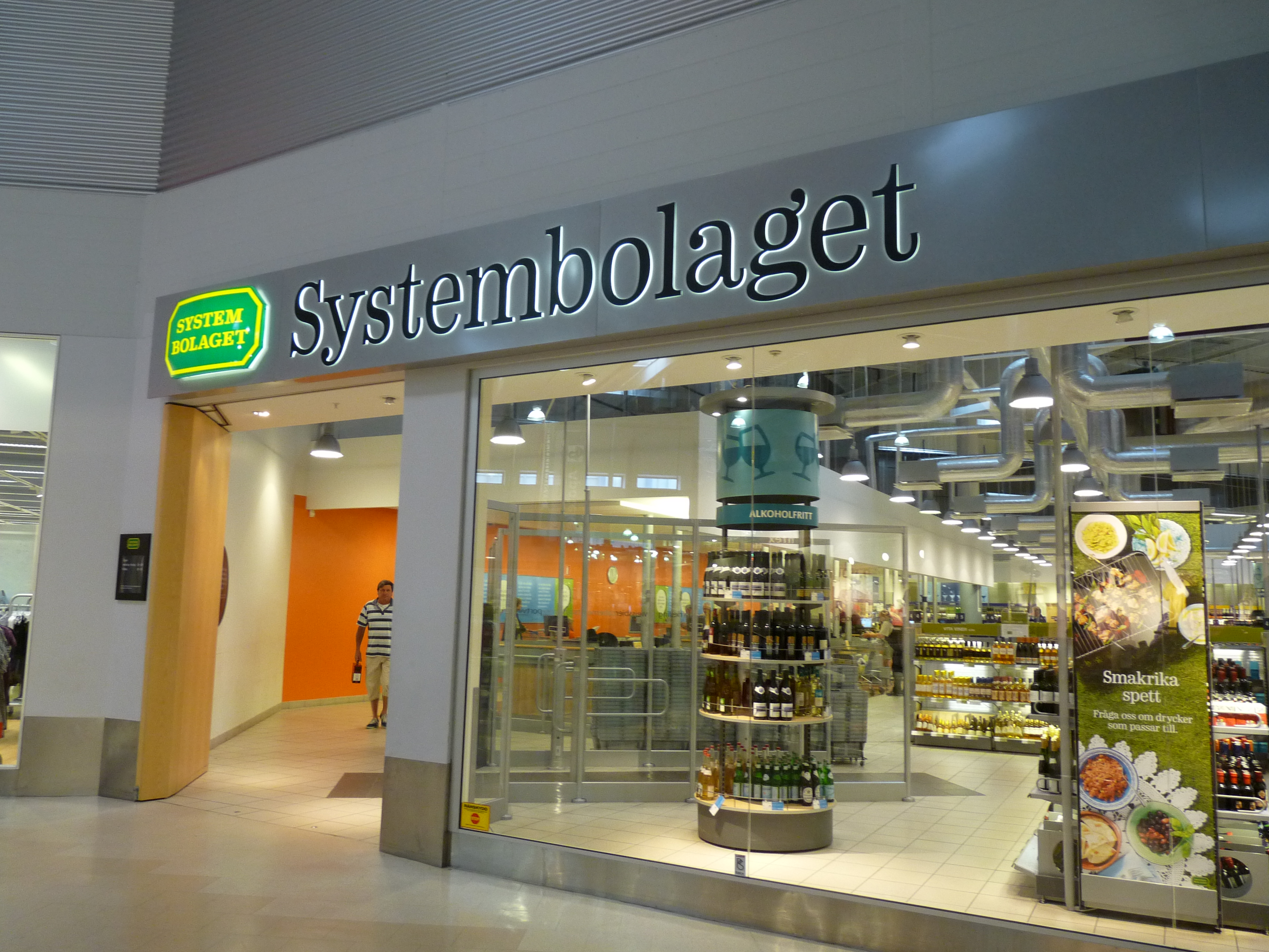 Systembolaget shop in Kungens Kurva